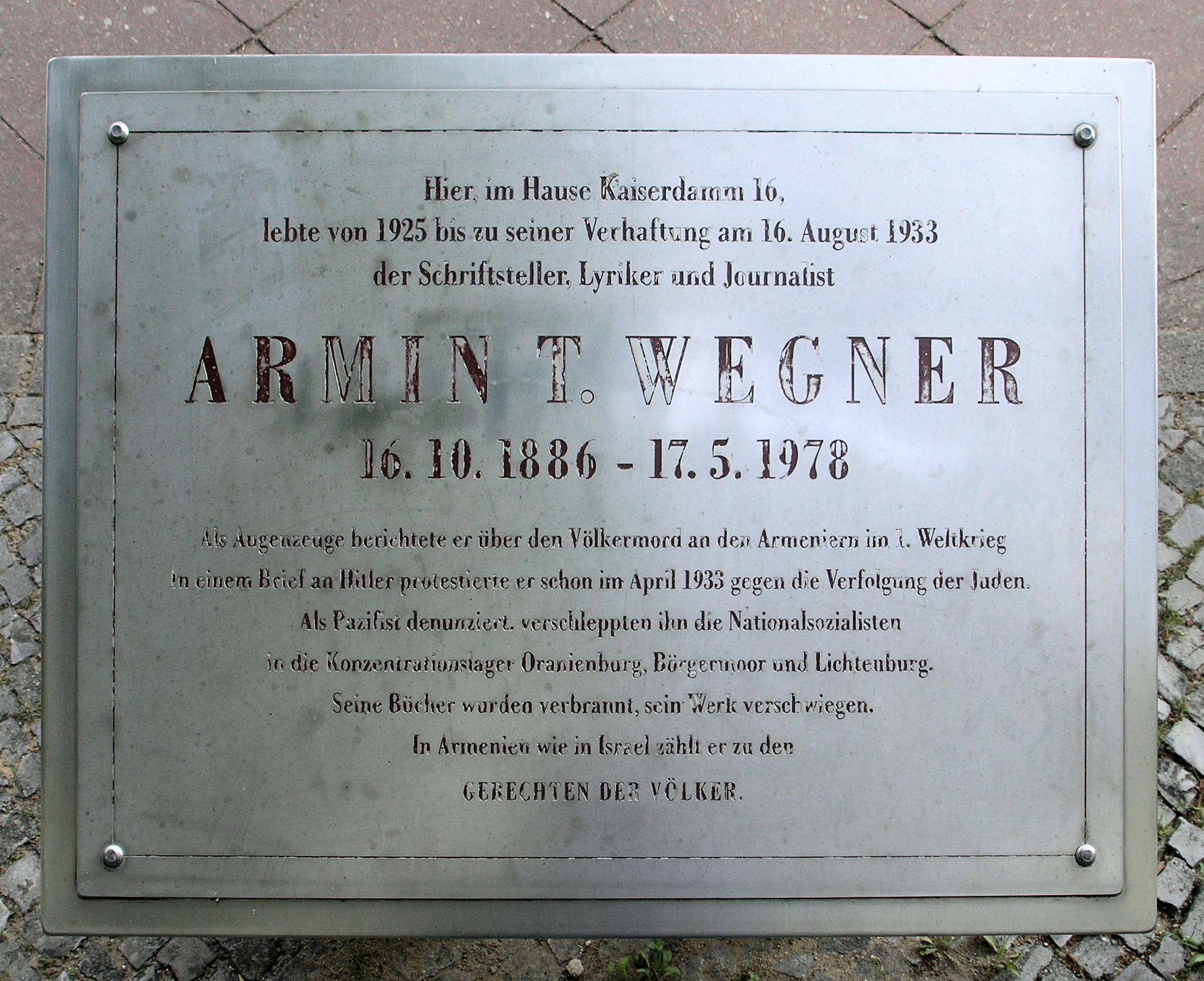 Memorial plaque, Armin T. Wegner, Kaiserdamm 16, Berlin-Charlottenburg, Germany Koordinate:52°30′38″N 13°17′16″E / 52.51056°N 13.28778°E